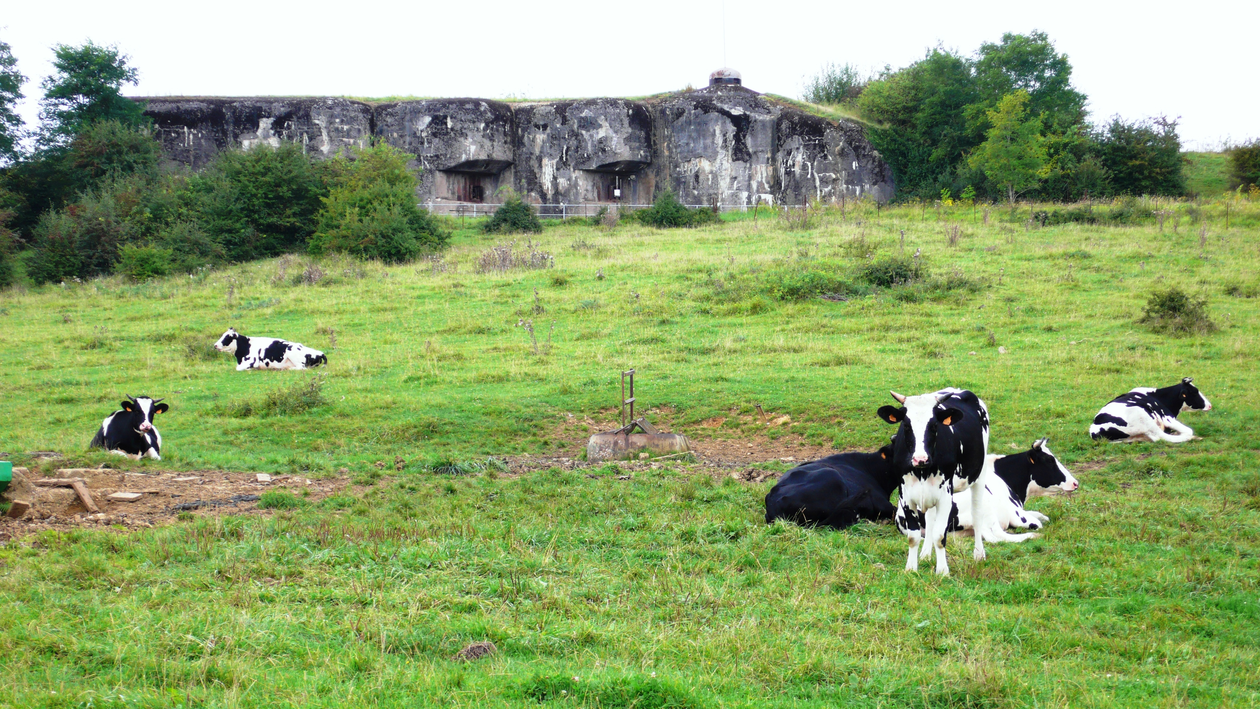 Fort de Fermont - Ligne Maginot at Longuyon (France)